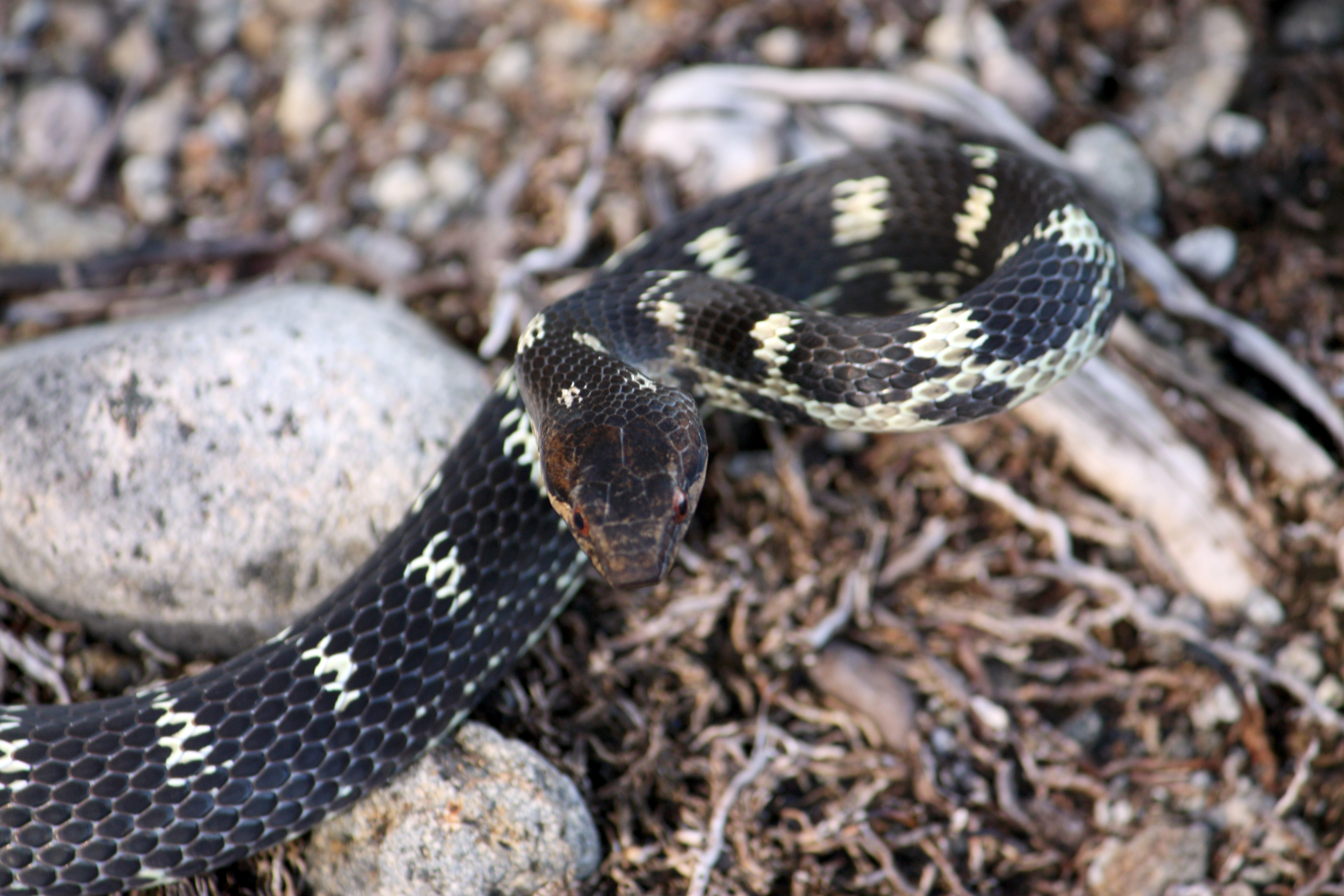 Antilles Racer (Alsophis antillensis). Atlantic shore at Rosalie, Dominica.